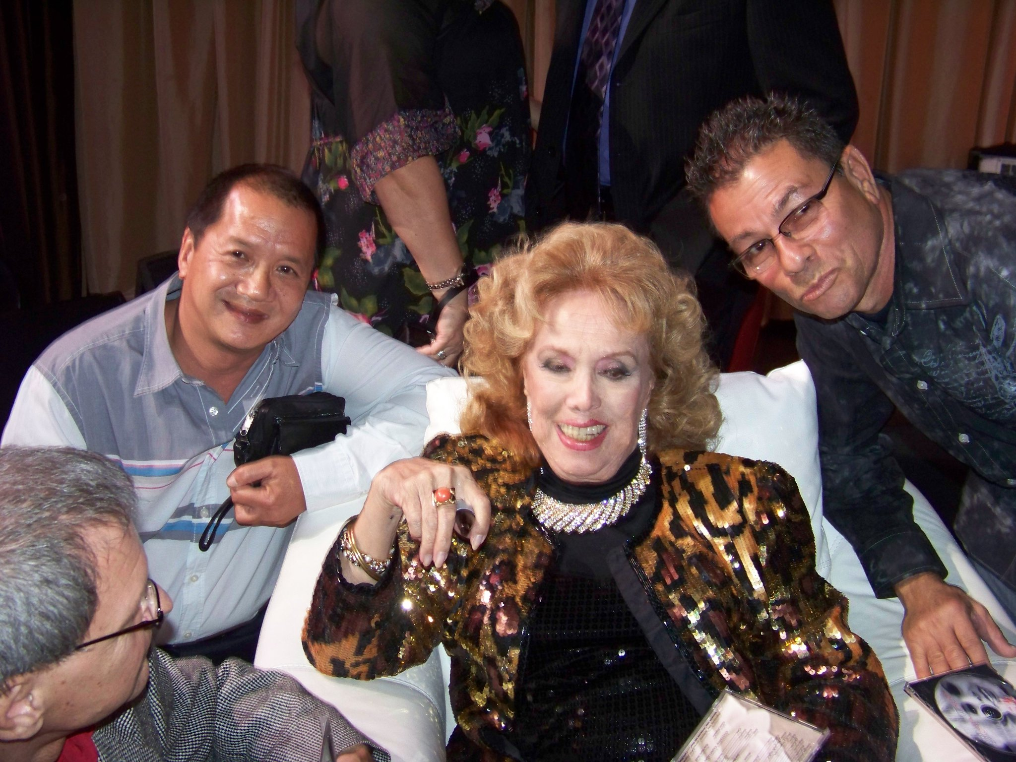 Rosita Fornés in an intimate gathering with her fans in 2011